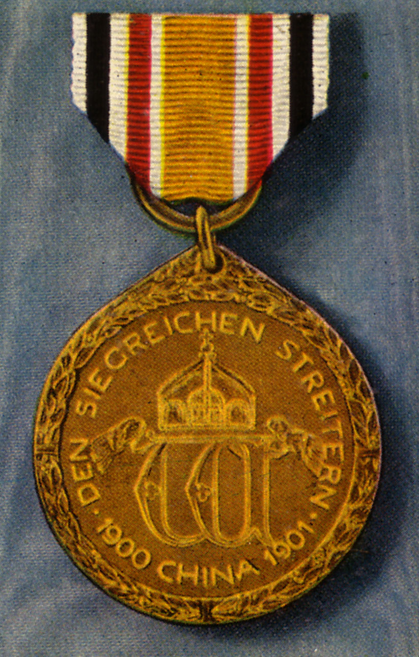 China Medal (German Empire)